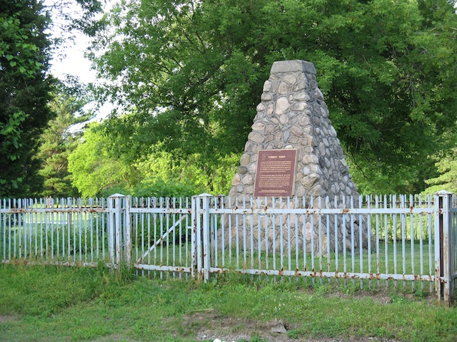 Fort Norfolk National Historic Site, also called Turkey Point, at Turkey Point Provincial Park, Ontario Other information If used outside Wikipedia, attribute to Yoho2001.